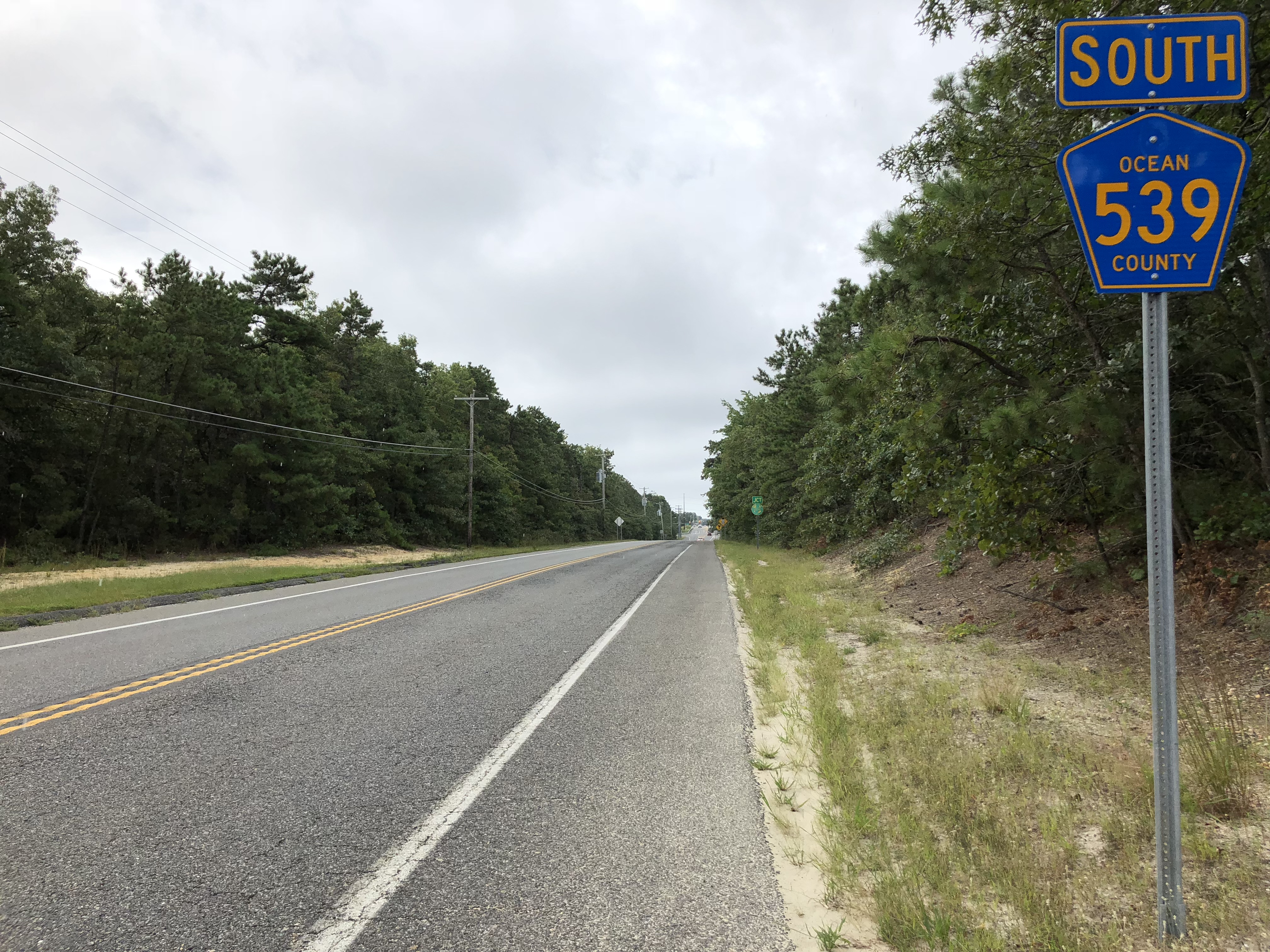 View south along Ocean County Route 539 (North Green Street) just south of Ocean County Route 606 (Forge Road) in Little Egg Harbor Township, Ocean County, New Jersey